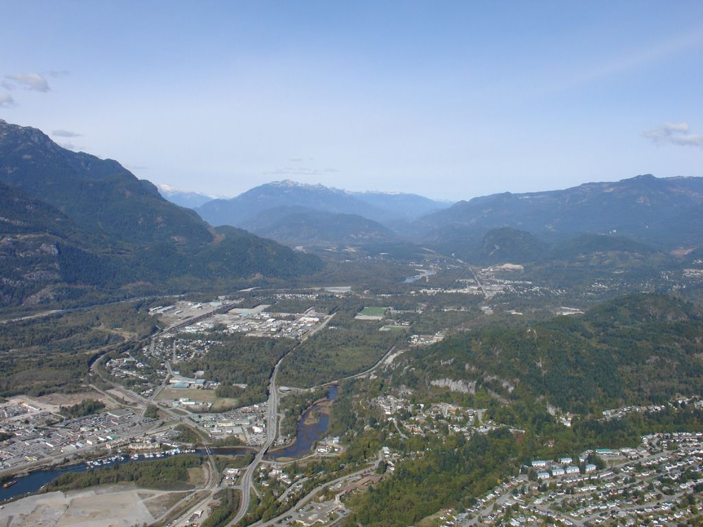 Areal view of Squamish, British Columbia, Canada